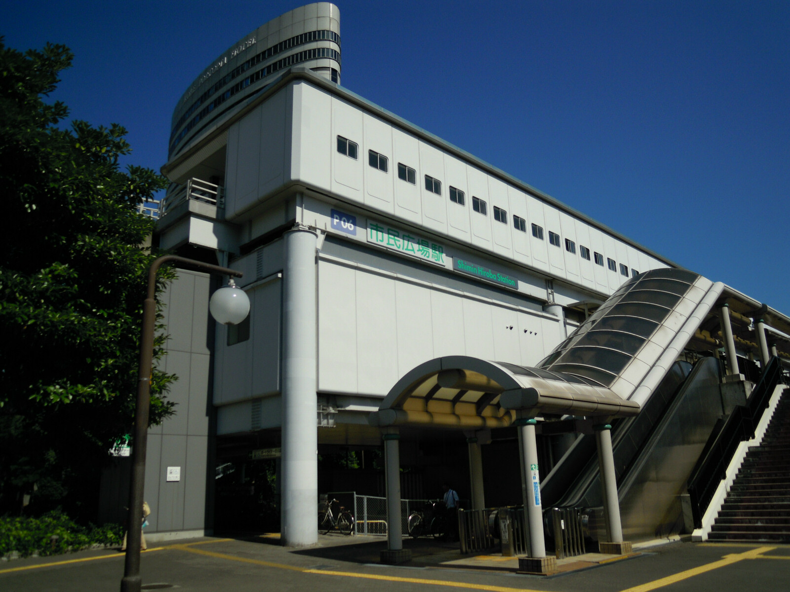 Port-liner Shiminhiroba station